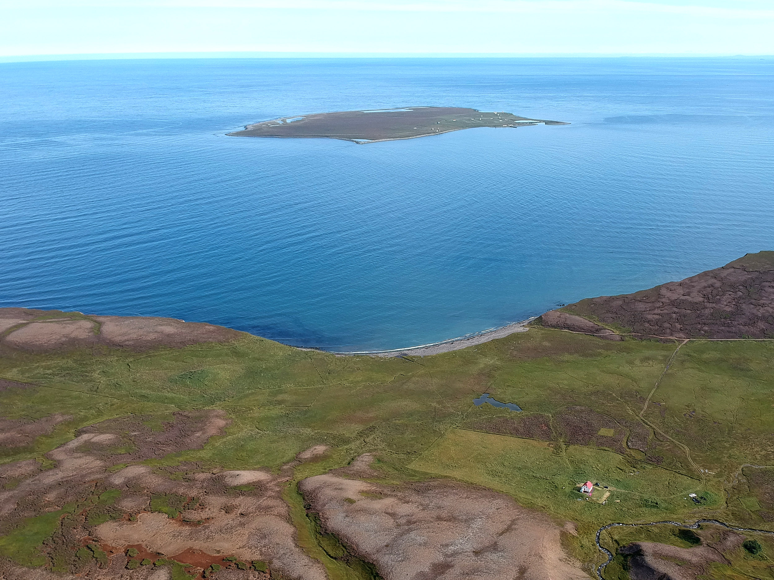 Flatey á Skjálfanda